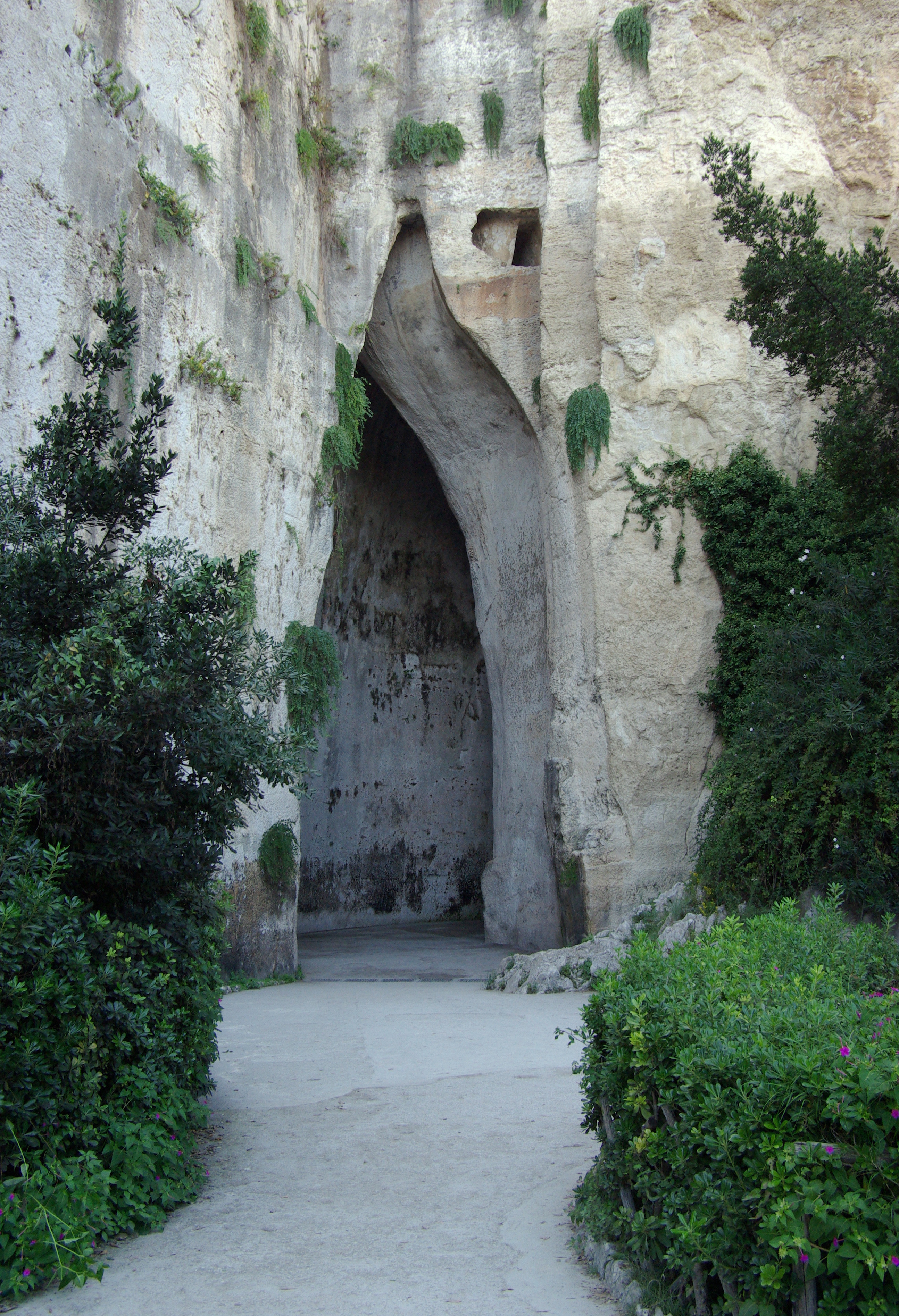 Italy, Sicily, Syracuse, ear of Dionysios